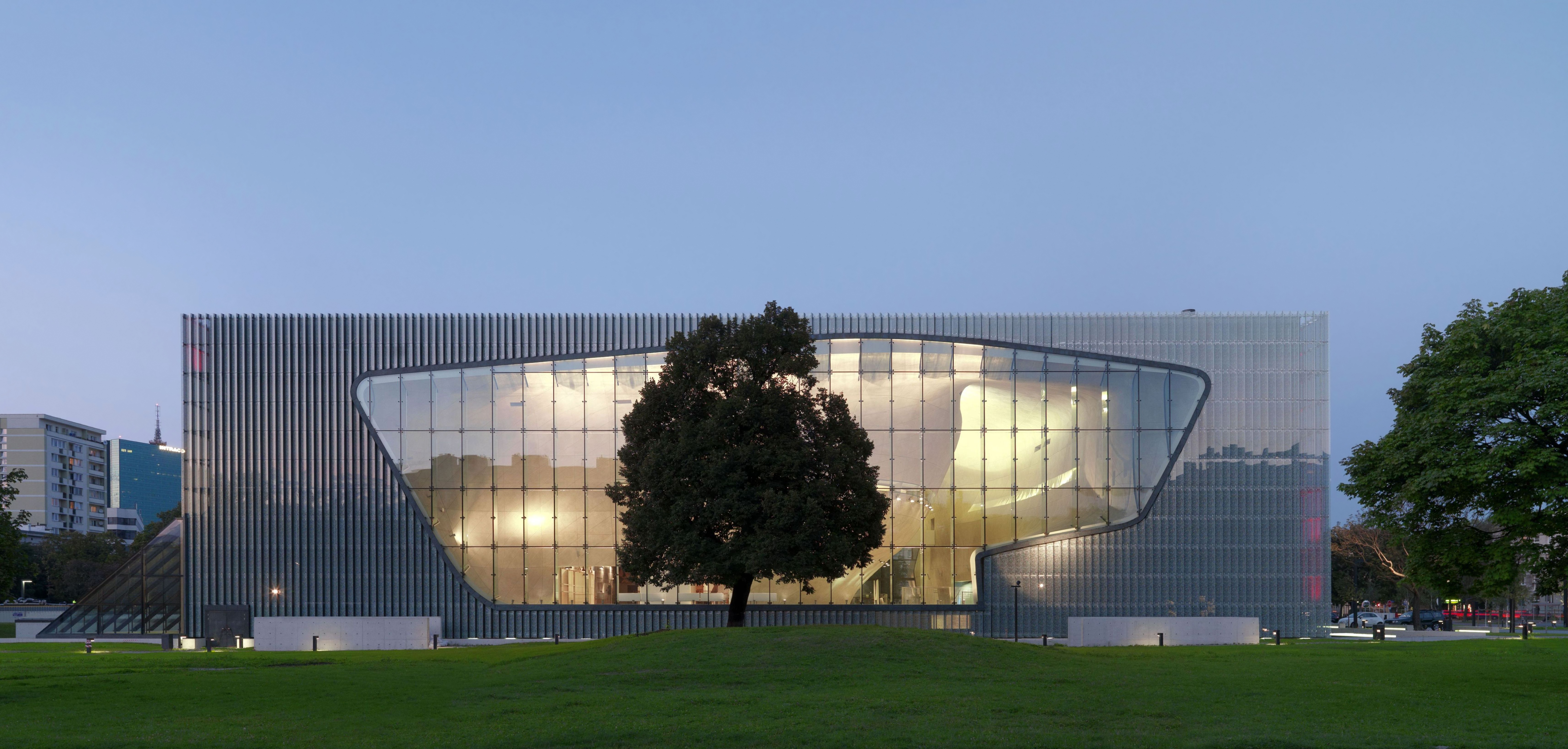 Building of the Museum of the History of Polish Jews in Warsaw viewed from Karmelicka Street